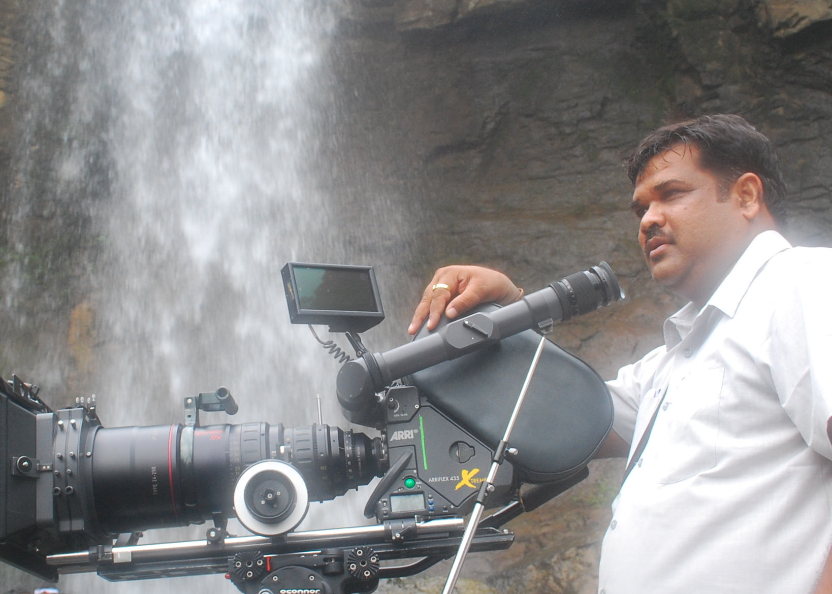 Vierendrra Lalit